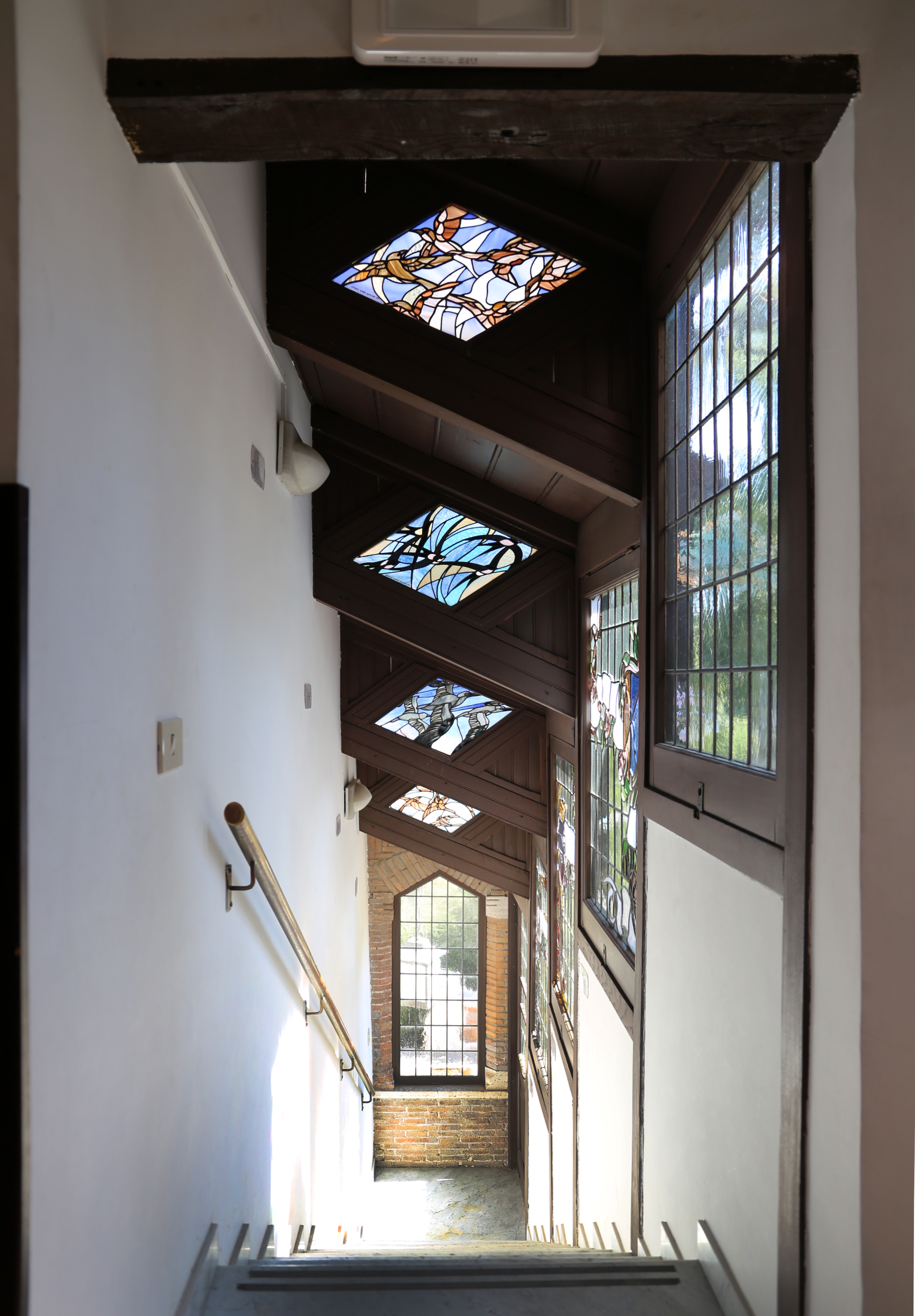 Casina delle Civette (Rome)